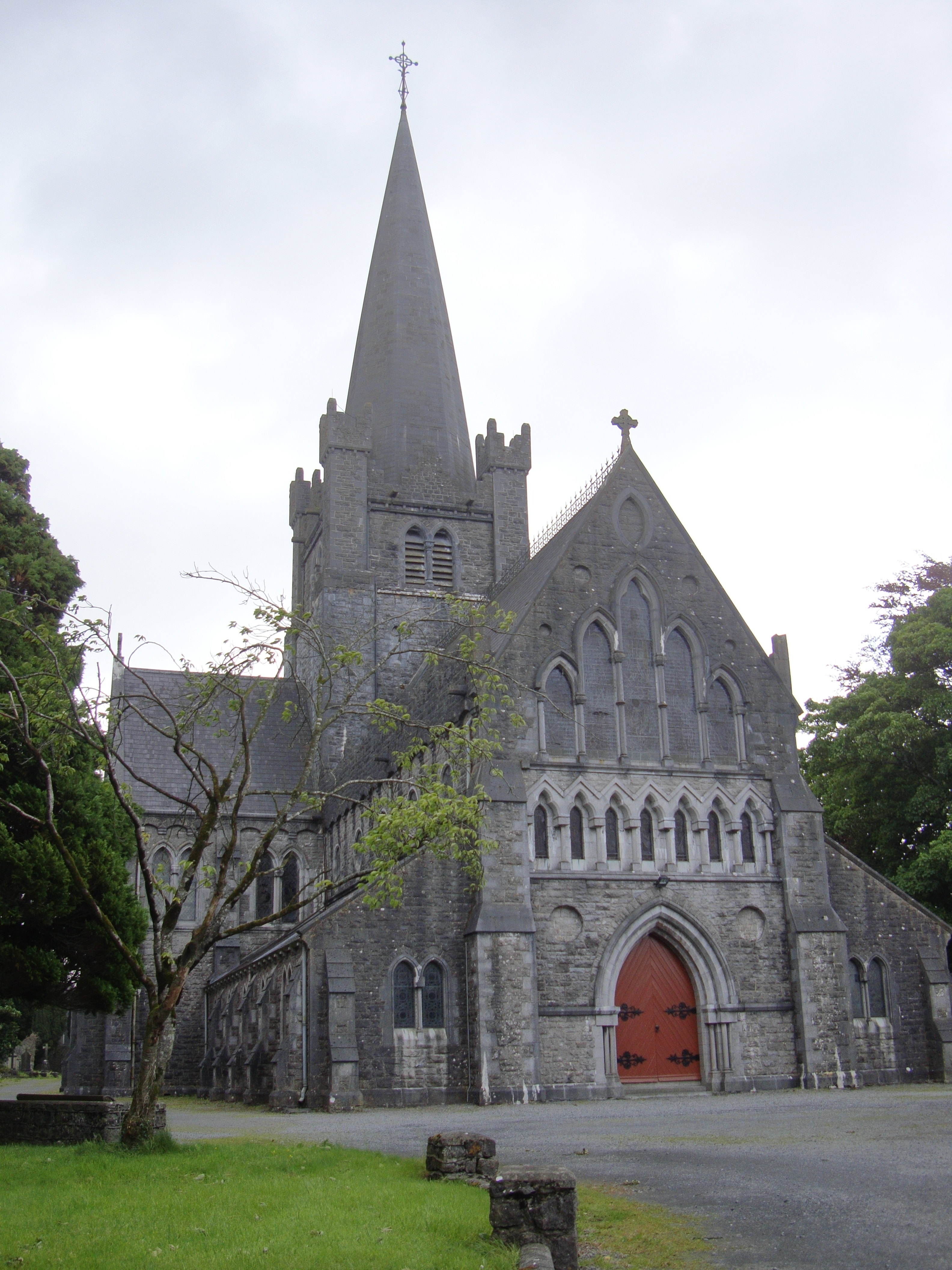 Photograph of Tuam C.I. Cathedral, Co. Galway, Ireland